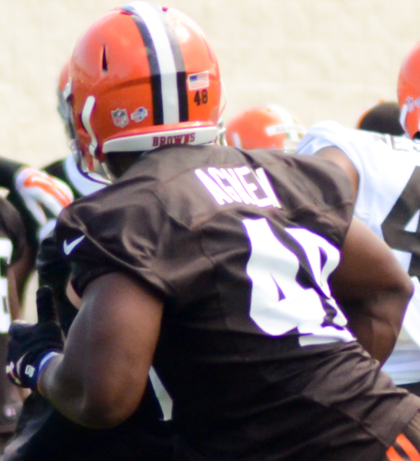 Johnny Manziel in 2014 Cleveland Browns training camp.